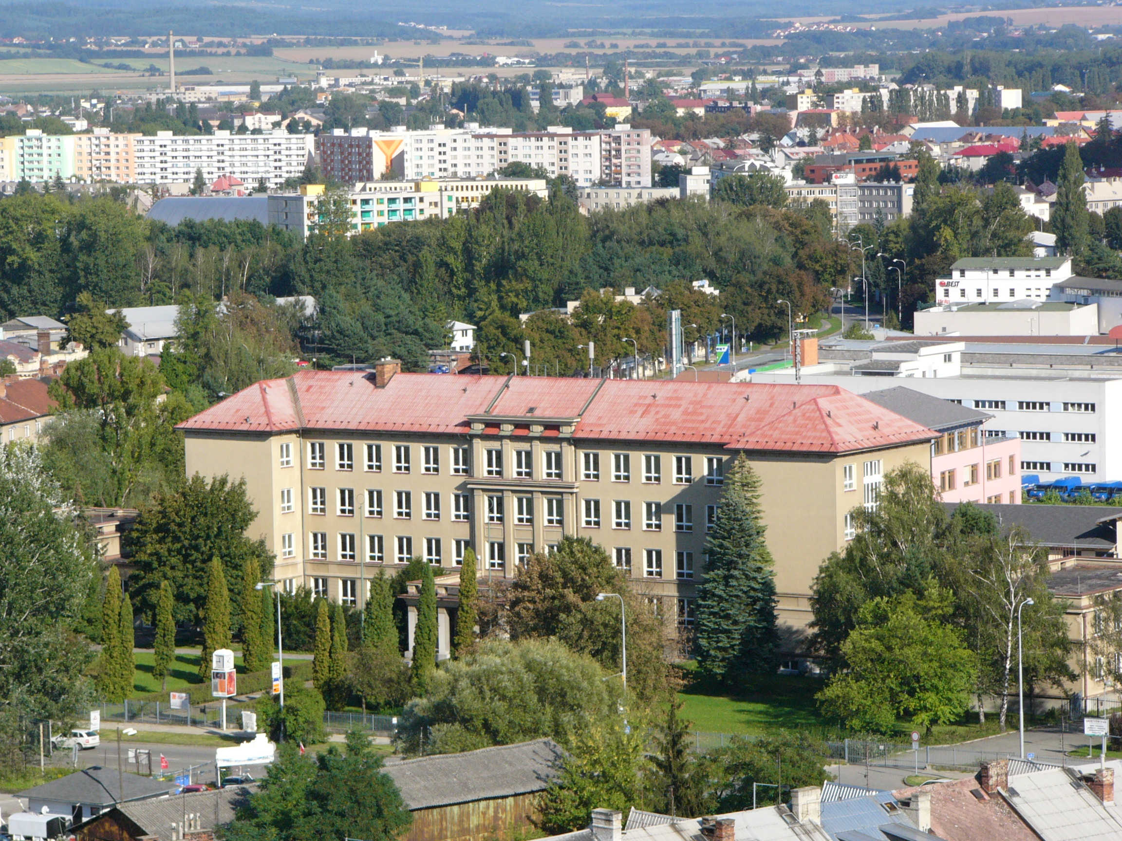 grammar school Gymnázium Olomouc - Hejčín in Olomouc (Czech Republic).